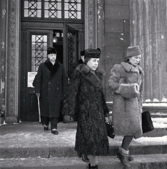 The accused's wife, Gerda Ryti and their daughter Eva Ryti leave the House of Estates after the war-responsibility trials 16 November 1945.